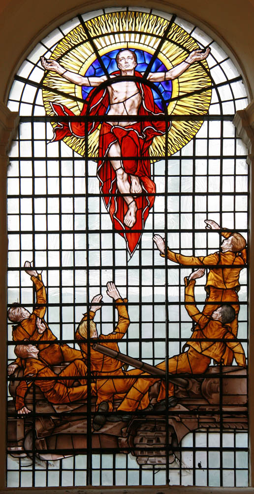 St Peter upon Cornhill, Cornhill, London EC3 - Tank Regiment WWII memorial window by Hugh Easton, near to London, City of London, Great Britain.